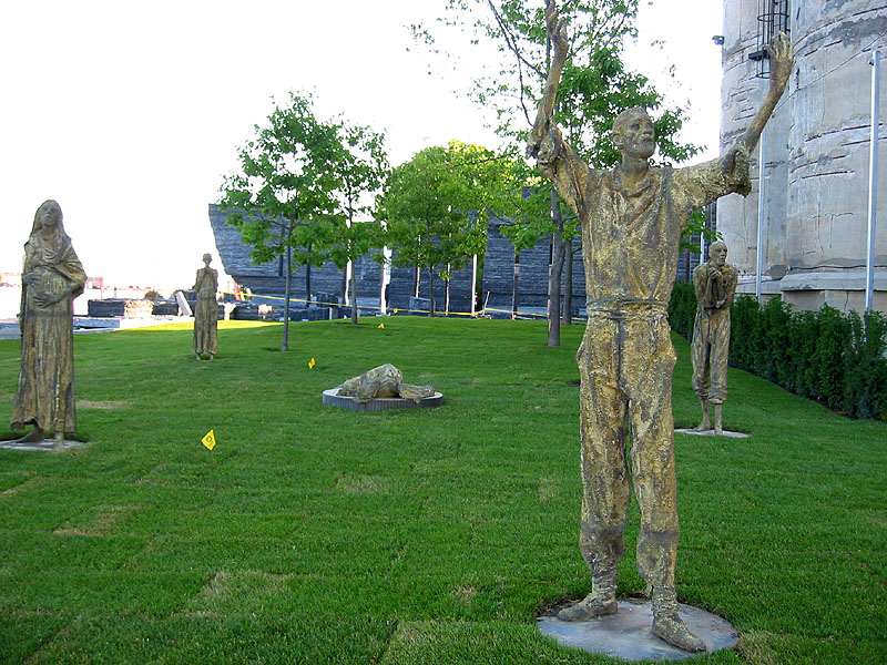 Myself (Dan Grant), photographed June 10, 2007.